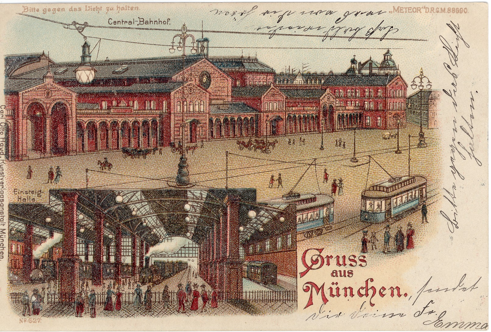 picture postcard: old central station munich